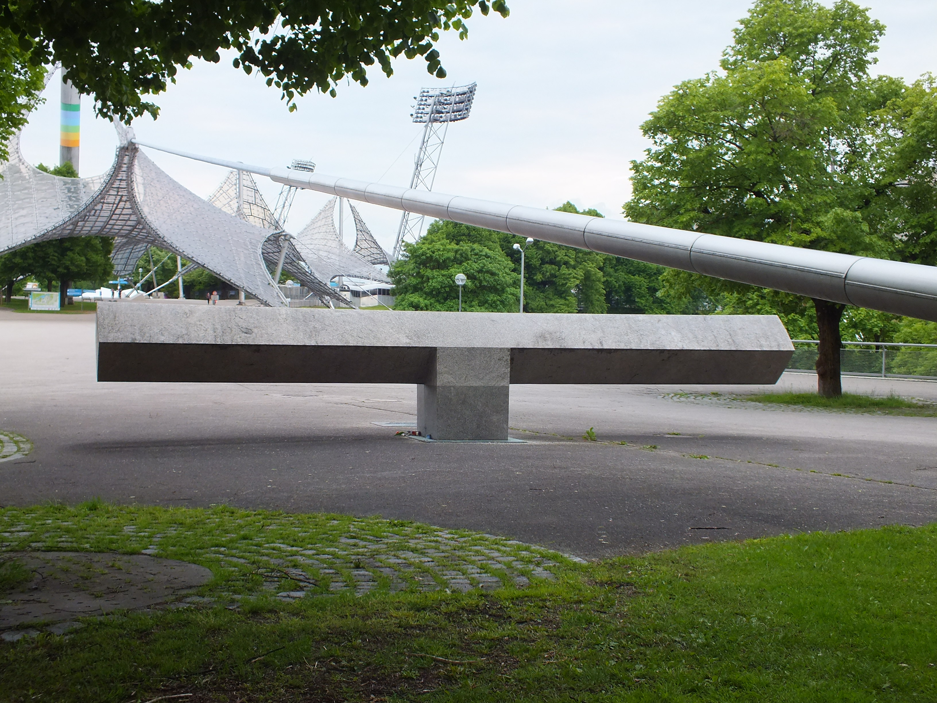 1972 Munich Massacre Memorial